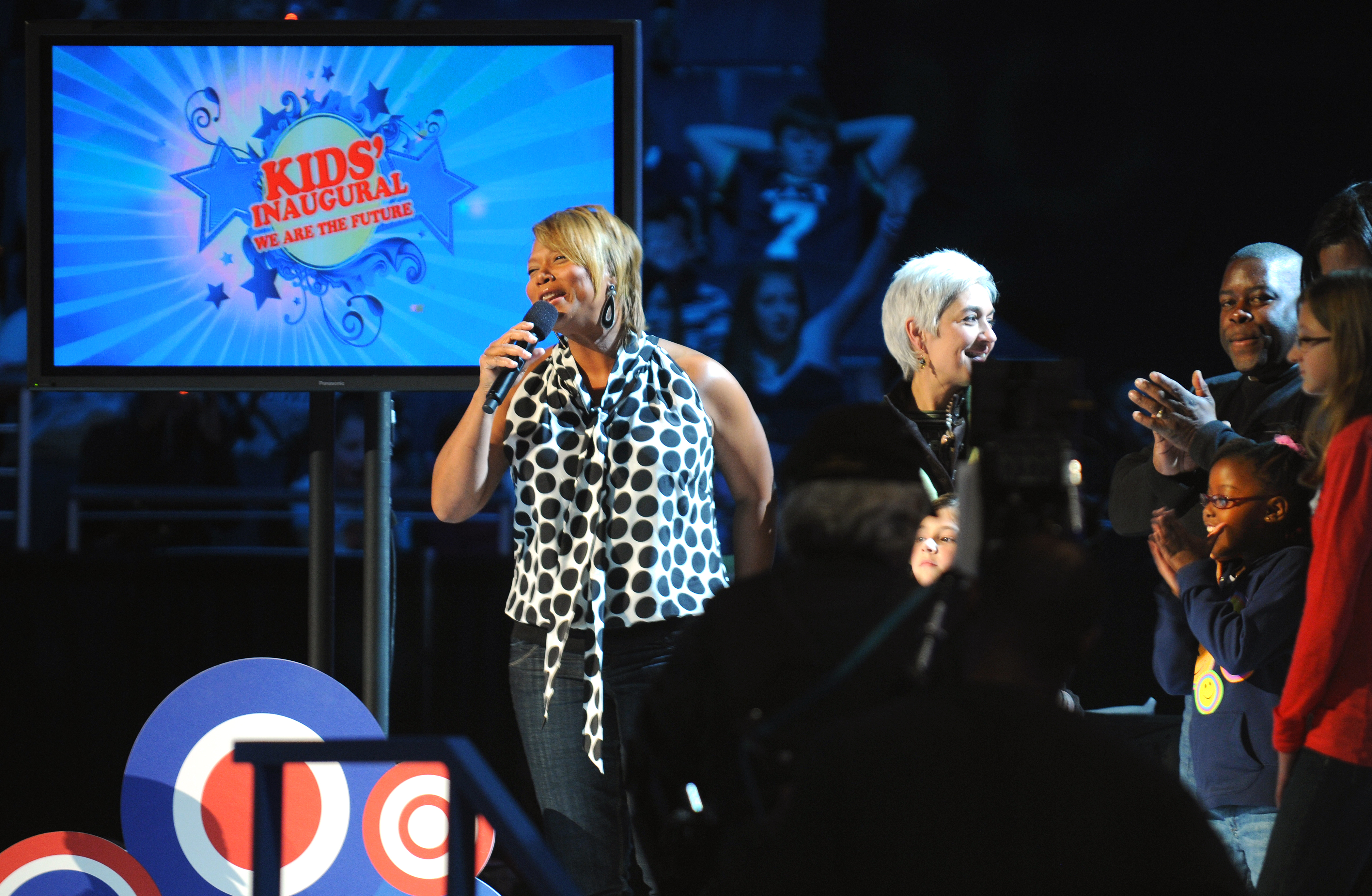 Queen Latifah introduces family members of the U.S. Army National Guard 261st Signal Brigade to their loved ones deployed in Iraq via satellite at the “Kids Inaugural: We Are the Future” concert at the Verizon Center in downtown Washington, D.C., Jan. 19, 2009